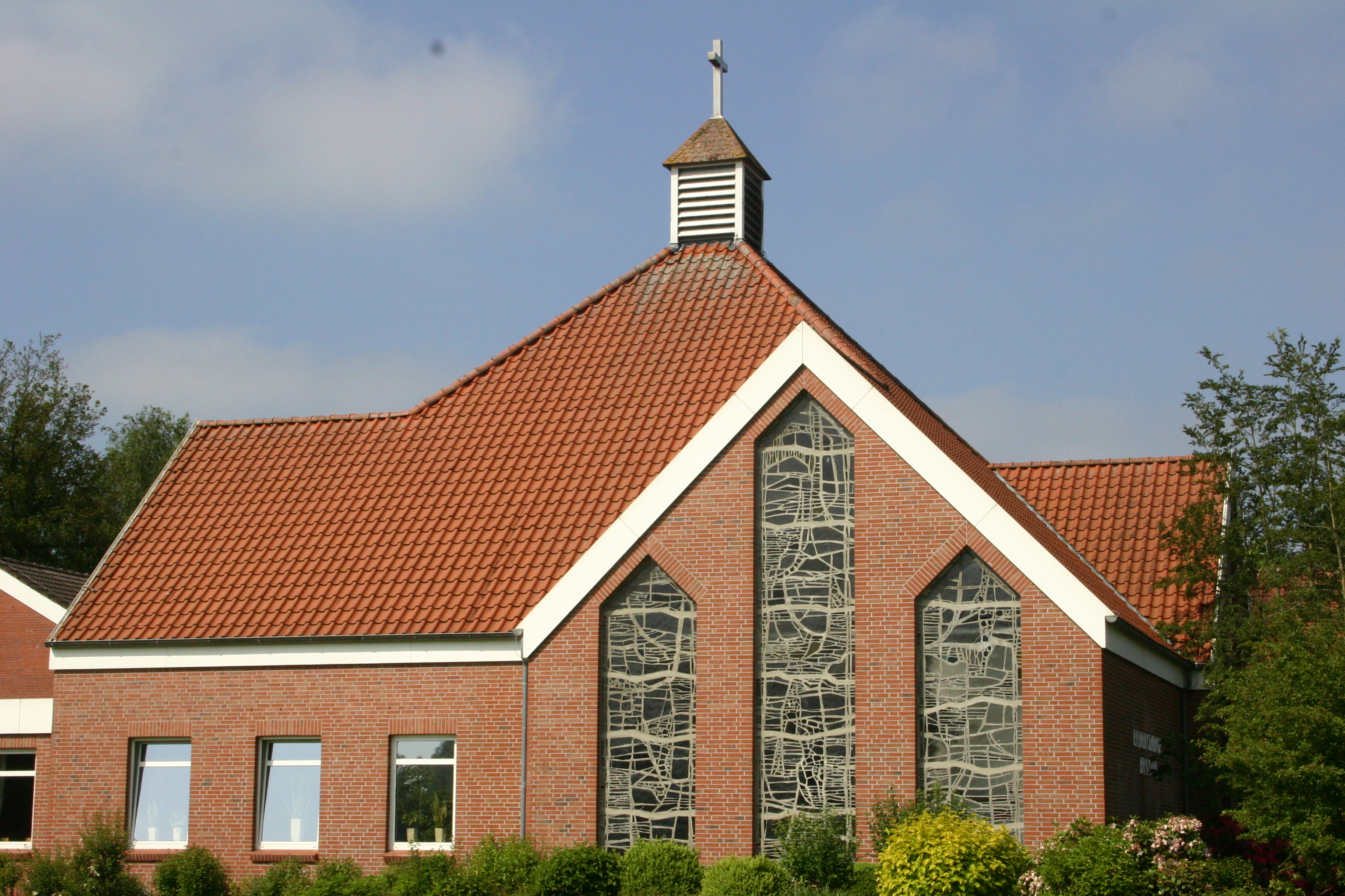 Historic church (bapt.) in Ihren, district of Leer, East Frisia, Germany